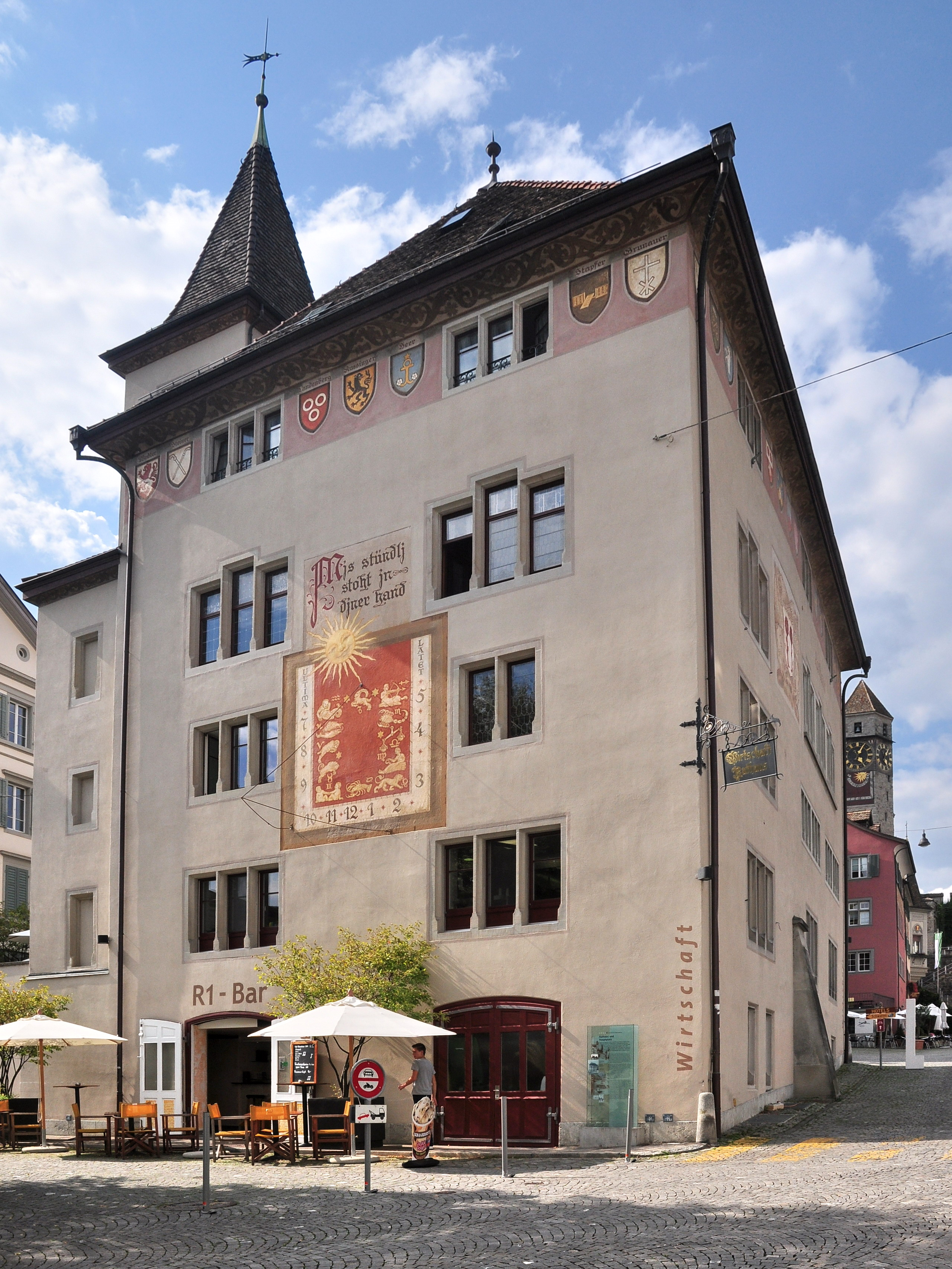 Rapperswil (Switzerland) : Rathaus, as seen from Fischmarktstrasse, Hauptplatz square and the castle's Zeitturm clock tower in the background.